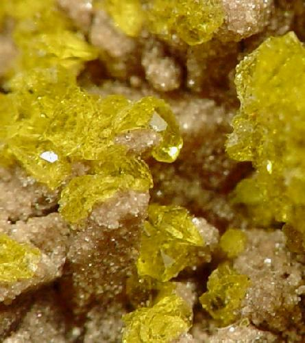 Jouravskite Locality: N'Chwaning Mines, Kuruman, Kalahari manganese fields, Northern Cape Province, South Africa (Locality at ) Size: 7 x 3.5 x 1.3 cm. A resplendent specimen of an incredibly rich coating of the very rare species Jouravskite. The carpet of gemmy yellow microcrystals (up to 1 mm) covers much of the matrix on the presentation side. Ex. Charlie Key.